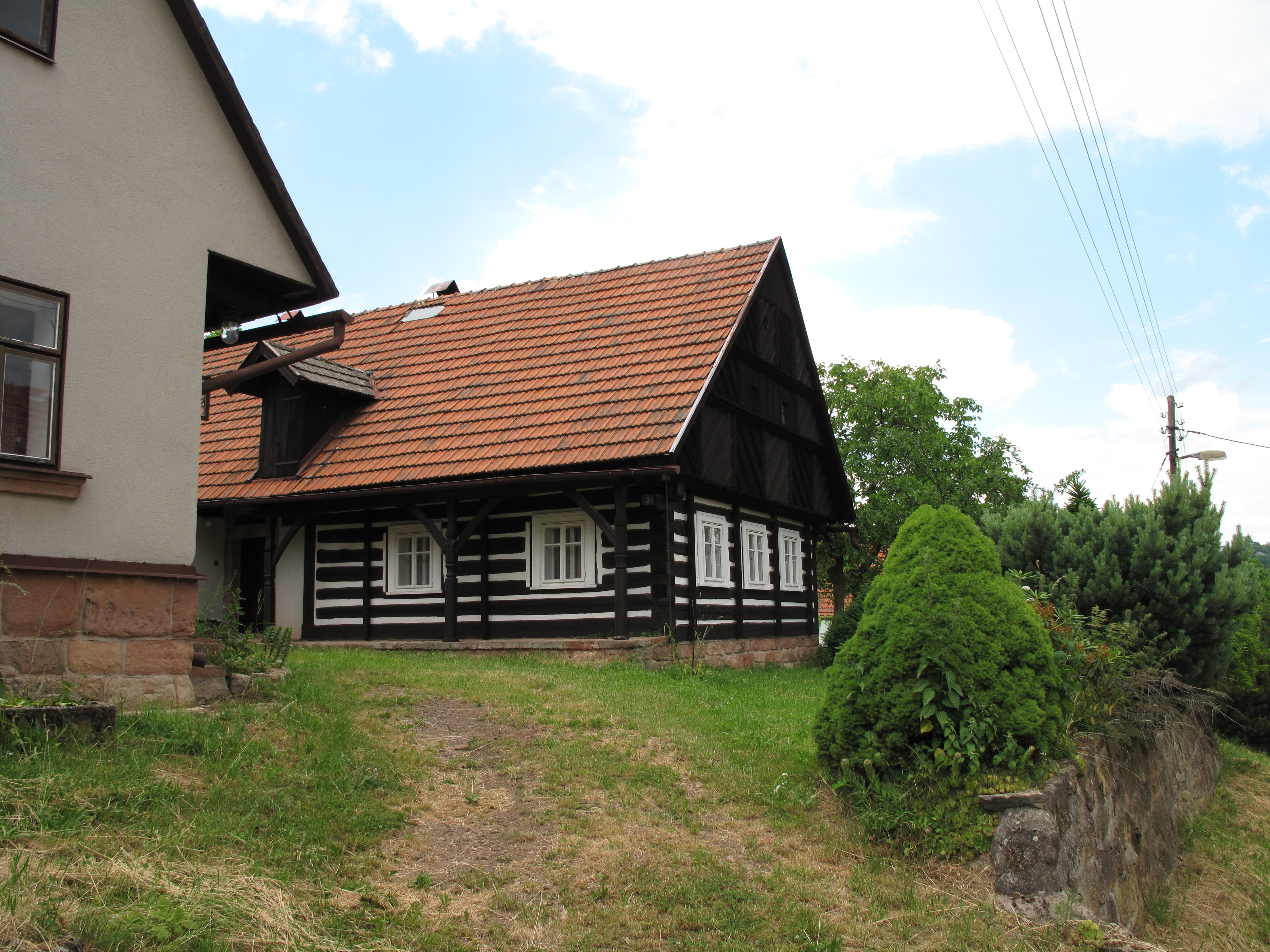 Brown log cabin in Zboží village (Úbislavice municipality), Jičín District, Czech Republic.